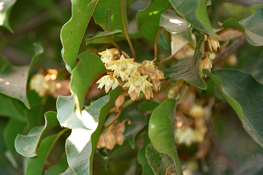 Mimusops elengi- Maulsari, Bakul, Indian medlar, Spanish Cherry, Bulletwood, Pagade tree's or Borsalli near Hyderabad, India.